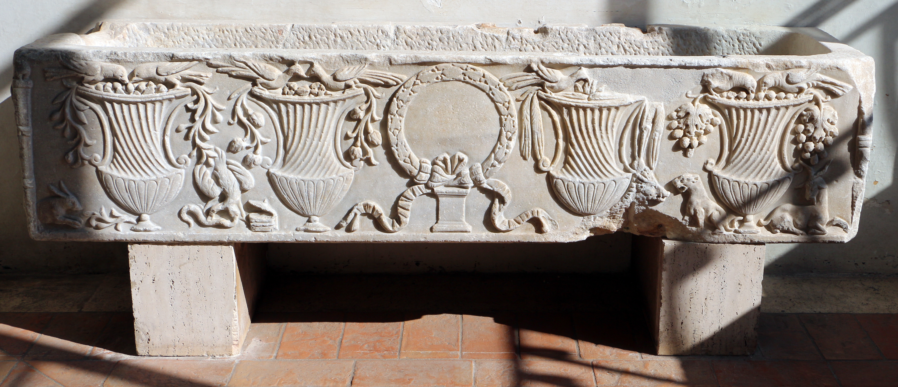 Palazzo Corsini alla Lungara (Rome)